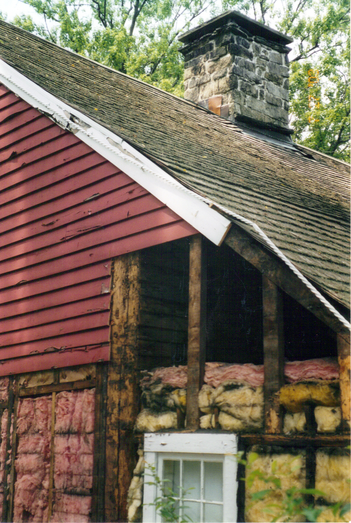 Southeast view of original rear wall with oak clapboards